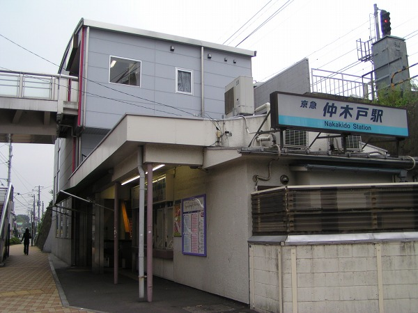 The entrance to Nakakido Station on the Keikyu Main Line in Yokohamka, Japan